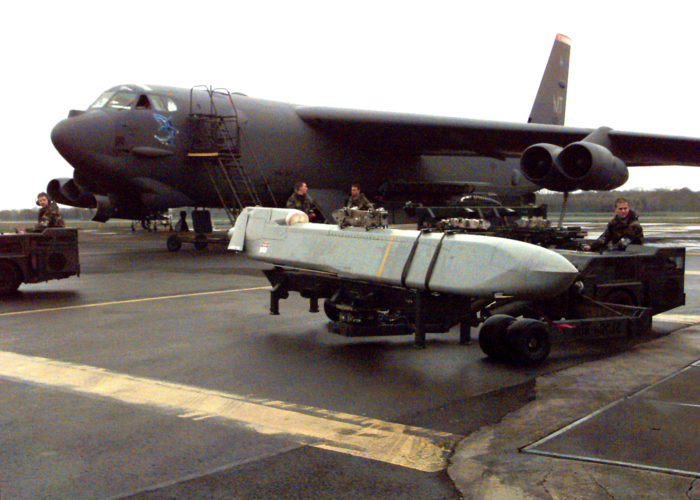 A U.S. Air Force airman transports an AGM-86C Conventional Air Launched Cruise Missile (CALCM) to a waiting a B-52H Stratofortress at RAF Fairford, United Kingdom, on March 30, 1999. The Stratofortress is being prepared for a mission in support of NATO Operation Allied Force, which is the air operation against targets in the Federal Republic of Yugoslavia. The Stratofortress and its crew are deployed from the 2nd Bomb Wing, Barksdale Air Force Base, La.